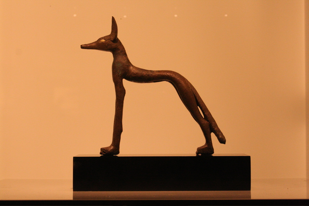 Photos from a 24 visit to London. Most of our time was in the British Museum, where we got to see the wonderful Chinese terra cotta army (no photos from that, though). Also saw a wonderfully fun play (39 Steps - no photos there either), and the £800M rennovation of St. Pancras (definitely photos).